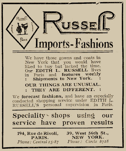 1922 advertisement for Edith Russell's fashion import business